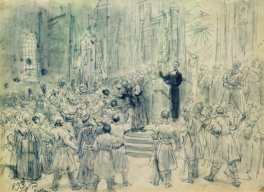 Sermon of Josaphat Kuntsevich in Belarus. Graphite on paper. 29 × 40 cm. Art Museum, Vitebsk.